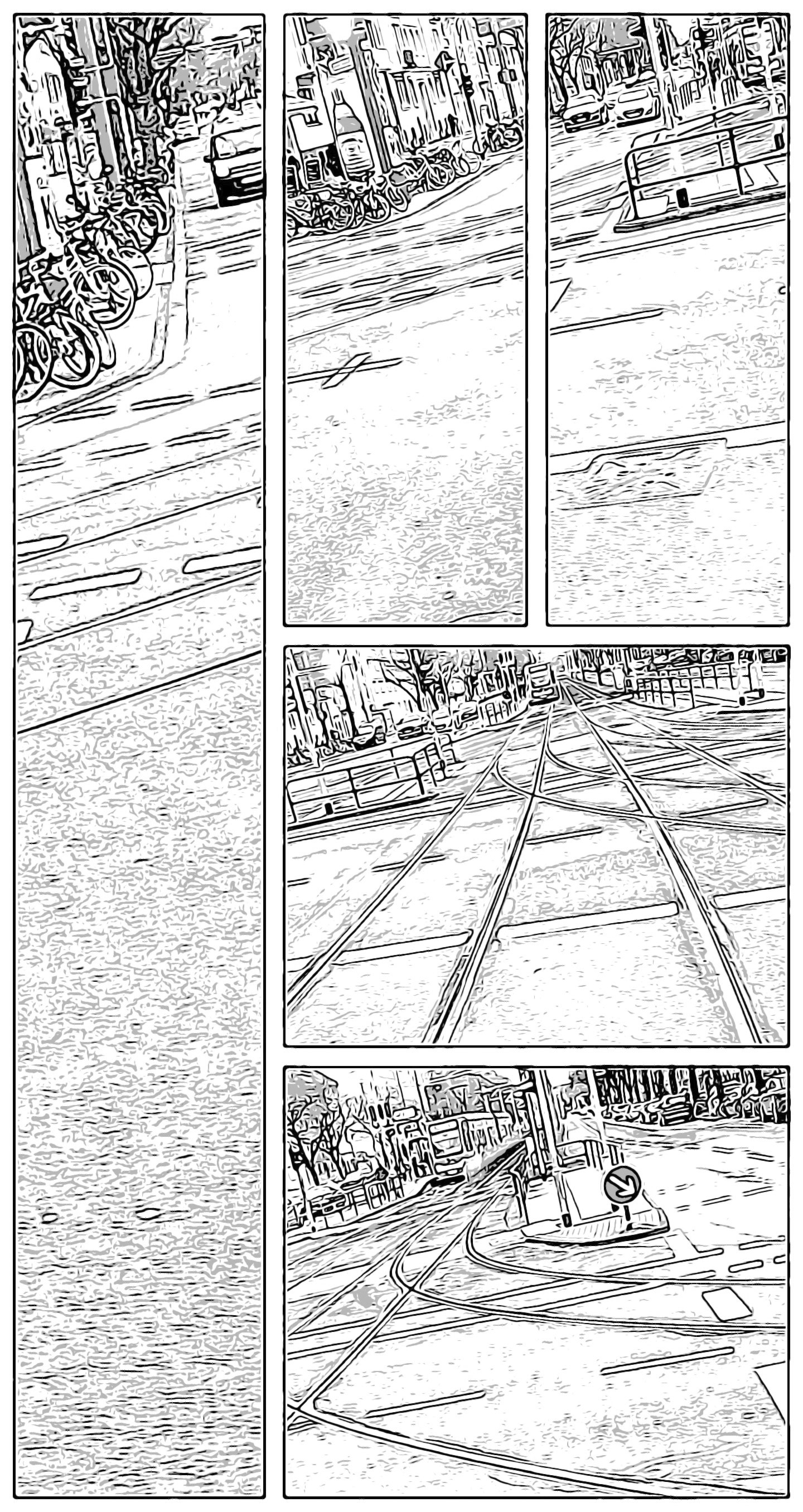 The cartoon shows empty streets in Cologne, Germany. The original file was a 5 seconds video. An App extracted several single images and arranged them in a more or less random way.